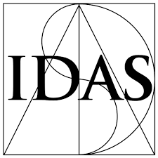 logo of IDAS